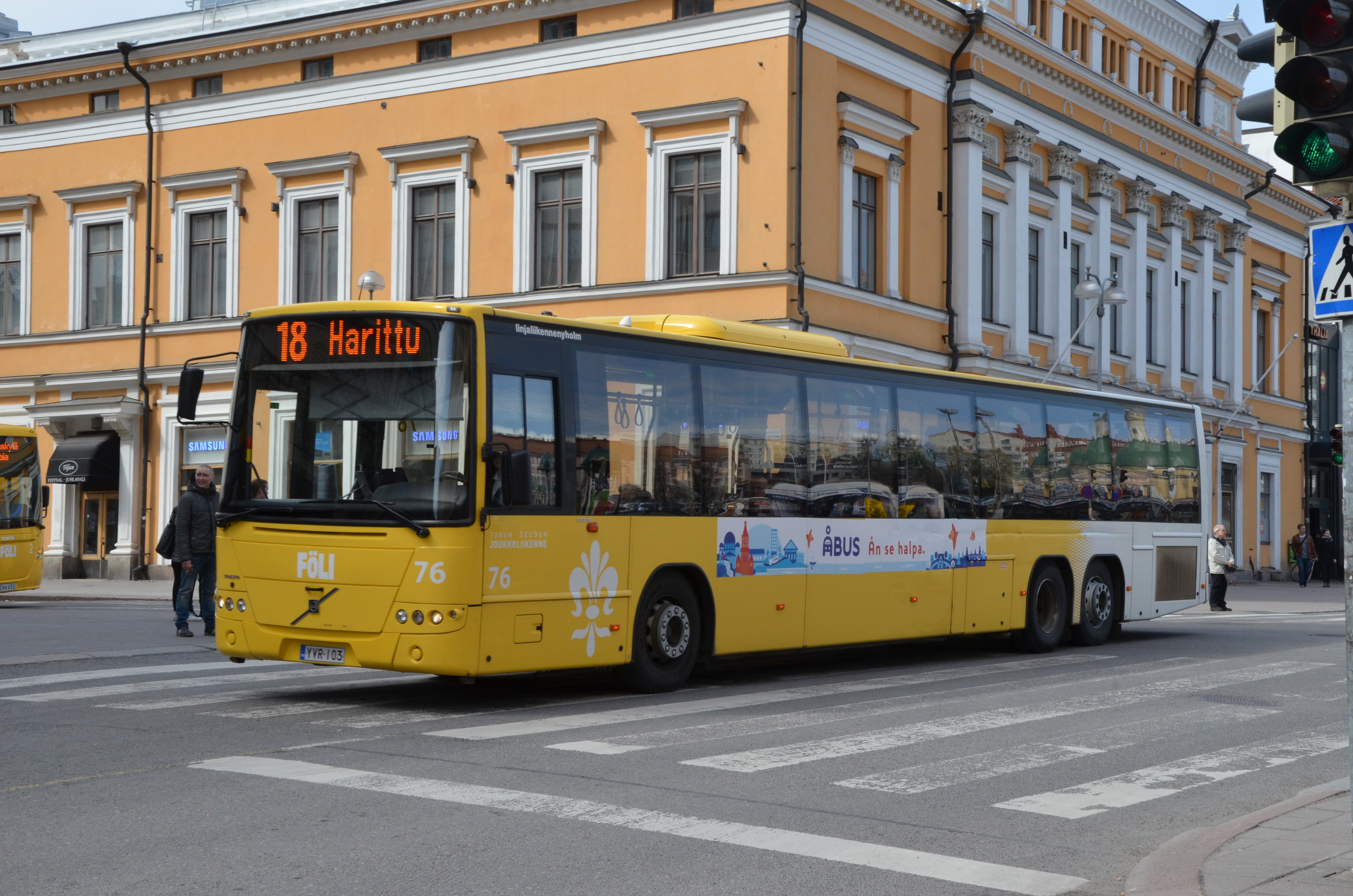 Linjaliikenne Nyholm's Volvo 8700 bus in Turku at the crossing of Aurakatu and Eerikinkatu driving local bus route 18. Behind the bus Åbo Svenska Teater (Turku Swedish Theatre).